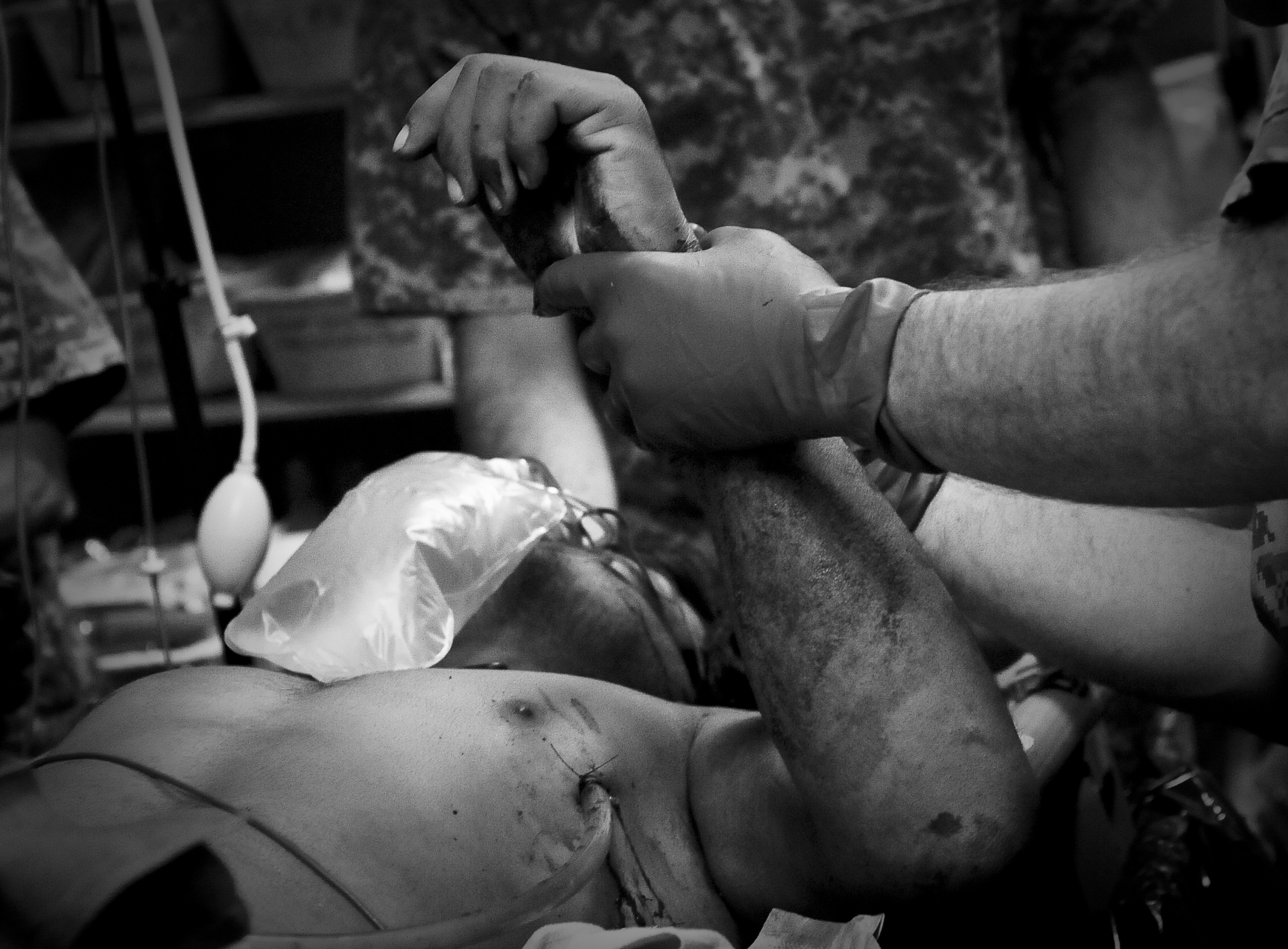 A 20-year-old Afghan gunshot wound victim receives immediate, life-saving surgical care from members of the Farah Forward Surgical Team at Forward Operating Base Farah, Afghanistan, May 18. The victim received wounds caused by Taliban gunfire in Shewan village in Farah province. He was later medically evacuated to Shindand for further treatment.